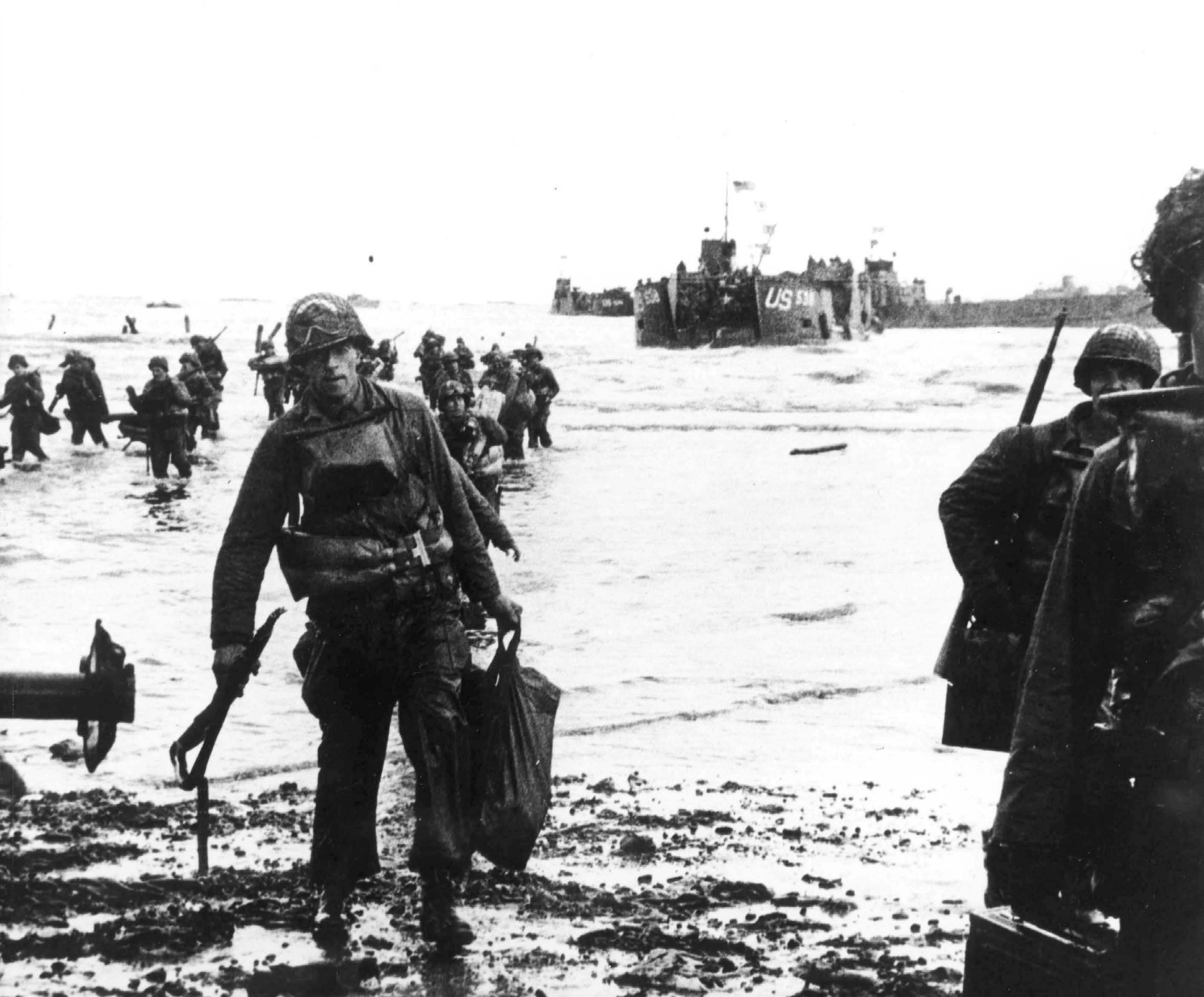 Carrying a full equipment, American assault troops move onto Utah Beach on the norther coast of France. Landing craft, in the background, jams the harbor. 6 June 1944. Photographer: Wall. SC189902